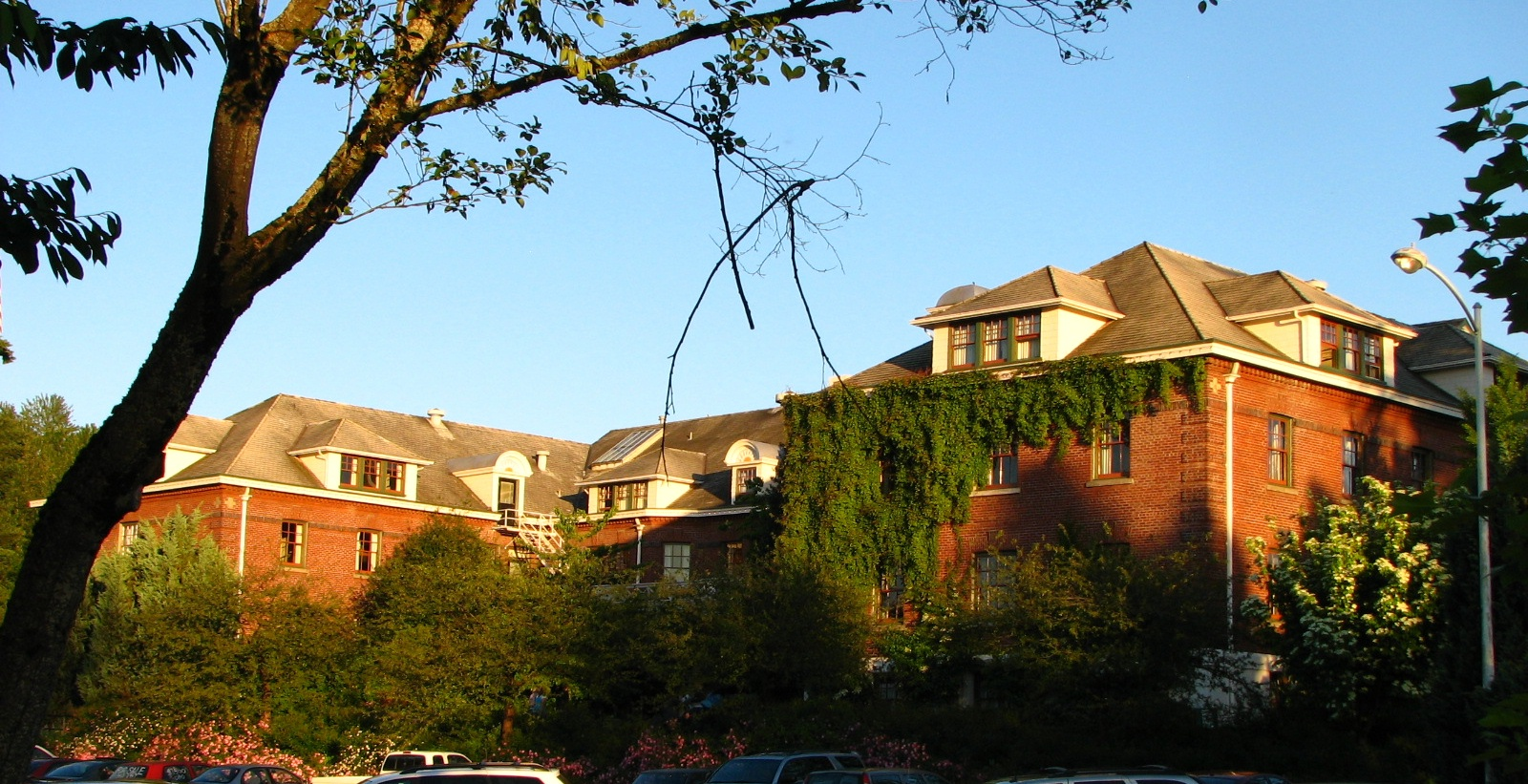 The Multnomah County Poor Farm (built 1911) in Troutdale, Oregon, United States, is listed on the US National Register of Historic Places. Today the complex is operated as an entertainment and lodging complex under the name McMenamins Edgefield.